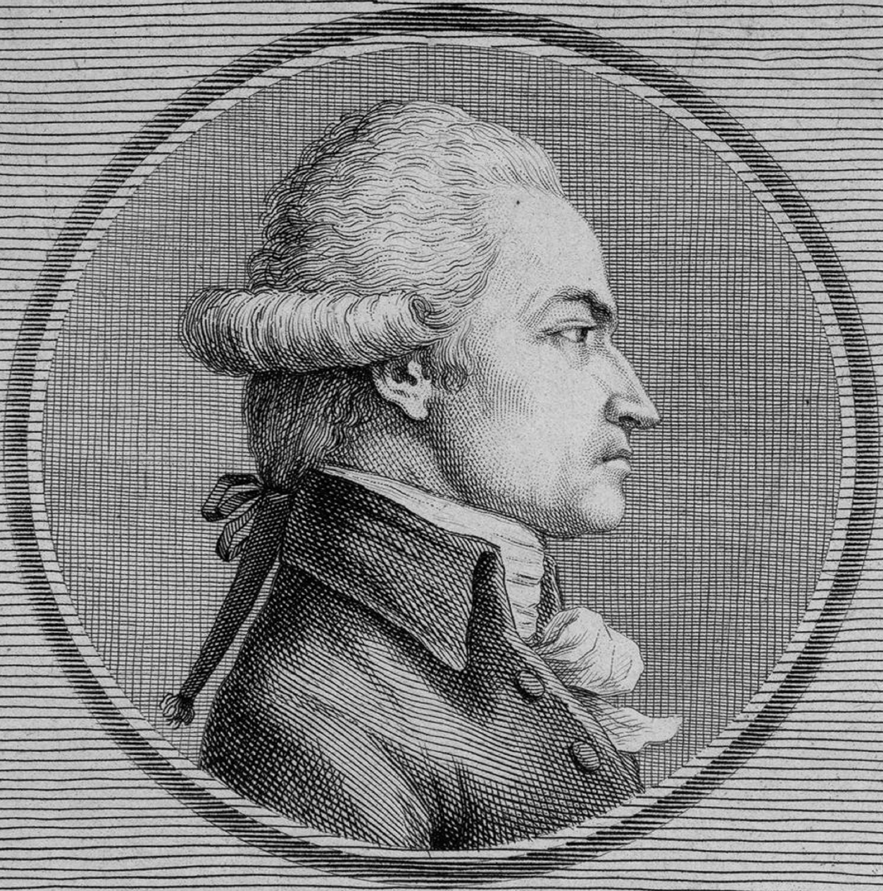 Extract of "Collection complète des portraits de MM. les Députés à l'Assemblée nationale de 1789", Dejabin, Paris, 1790. Ildut Moyot (born august, 10th 1749 Lanildut - died april, 17th 1813 Lanildut), merchand and deputy of britanny in Etats généraux in 1789.